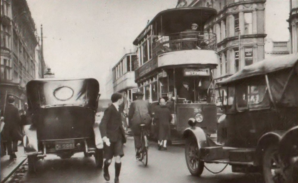 Belfast, Royal Avenue, 1920's